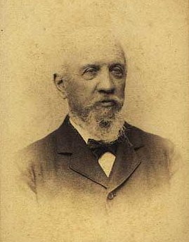 Frederik Christian Ferdinand Tutein (1830-1912), Danish estate owner and politician, MP